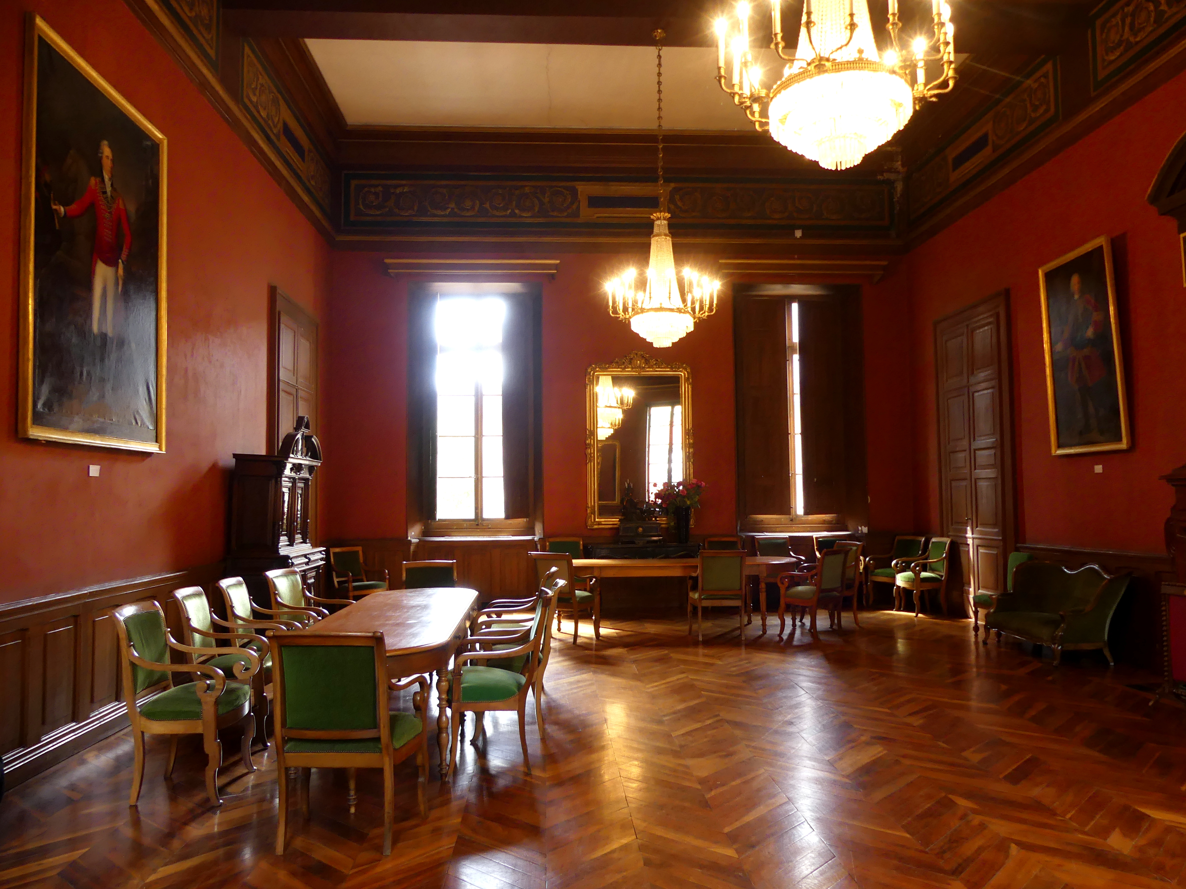 Sight of the Salon Napoléon ceremony room, in the Chambéry courthouse, Savoie, France.